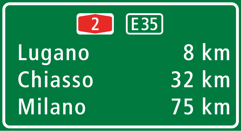 A "route confirmation" sign on the A2 Highway near Lugano (Ticino), Switzerland, informing motorists of their distance (in kilometres) from the places listed.